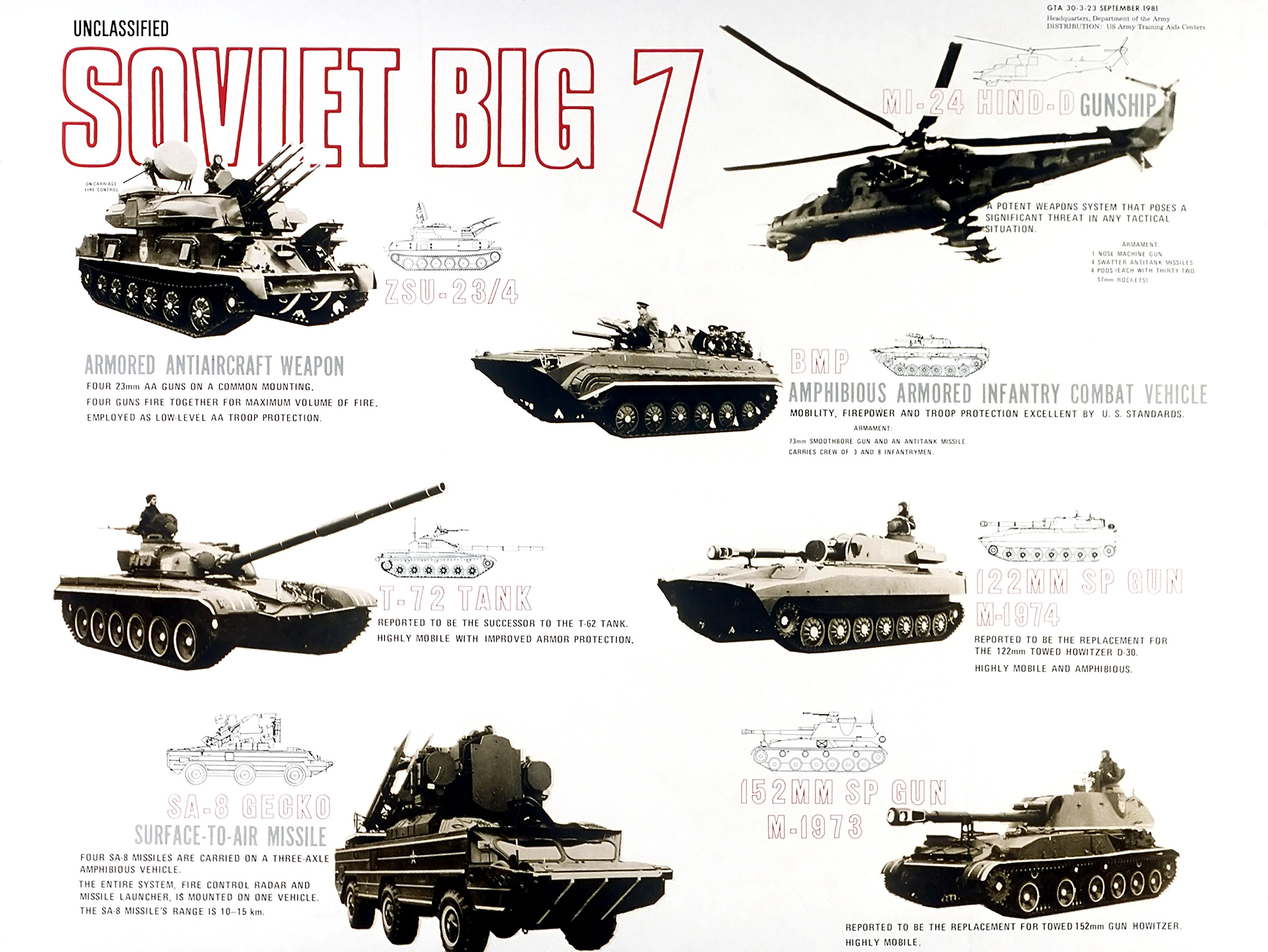 Sourced from: (link to image) Details: ID: DAST8512646 Service Depicted: Other Service Command Shown: A0102 A composite view of Soviet combat equipment known as the "Big 7." Shown are: A ZSU-23-4 armored anti-aircraft weapon, A T-72 tank, An SA-8 Gecko surface-to-air missile system mounted on a three-axle amphibious vehicle, An Mi-24 Hind-D gunship with one nose machine gun and four anti-tank missiles, A BMP-1 amphibious armored infantry combat vehicle with a 73mm smoothbore gun and an anti-tank missile, An M-1974 122mm self-propelled gun, An M-1973 152mm self-propelled gun. Date Shot: 1 Sep 1981